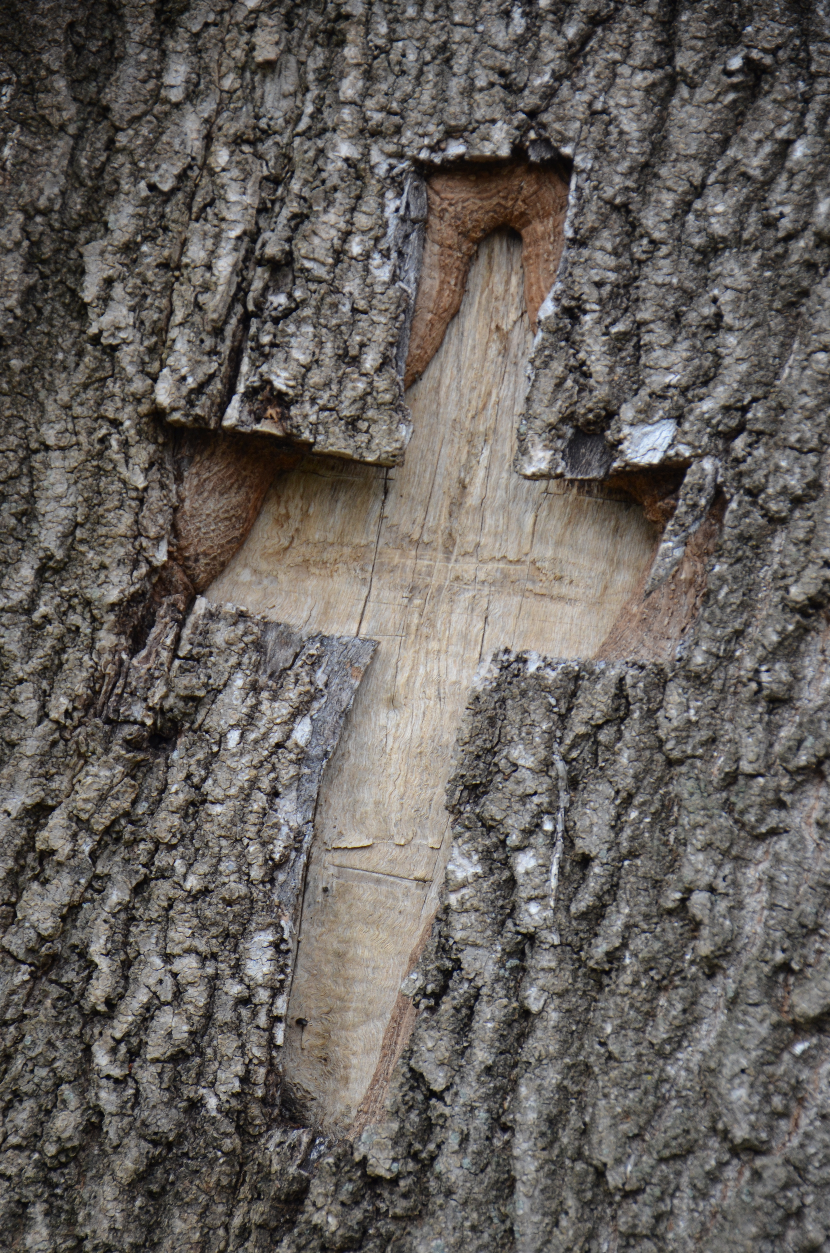 Zapis - Sacred Tree, Ash in village Resnik, municipality Kragujevac, Serbia Srpski (latinica): Zapis - Jasen u Dubokiću, selo Resnik, Opština Kragujevac, Šumadijski okrug, Srbija Српски (ћирилица): Запис - јасен у Дубокићу, село Ресник, Општина Крагујевац, Шумадијски округ, Србија